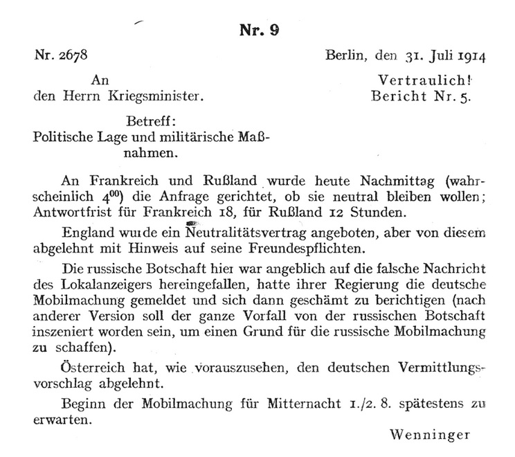 Report informing the Bavarian Ministery of War about the immediate outbreak of World War I.